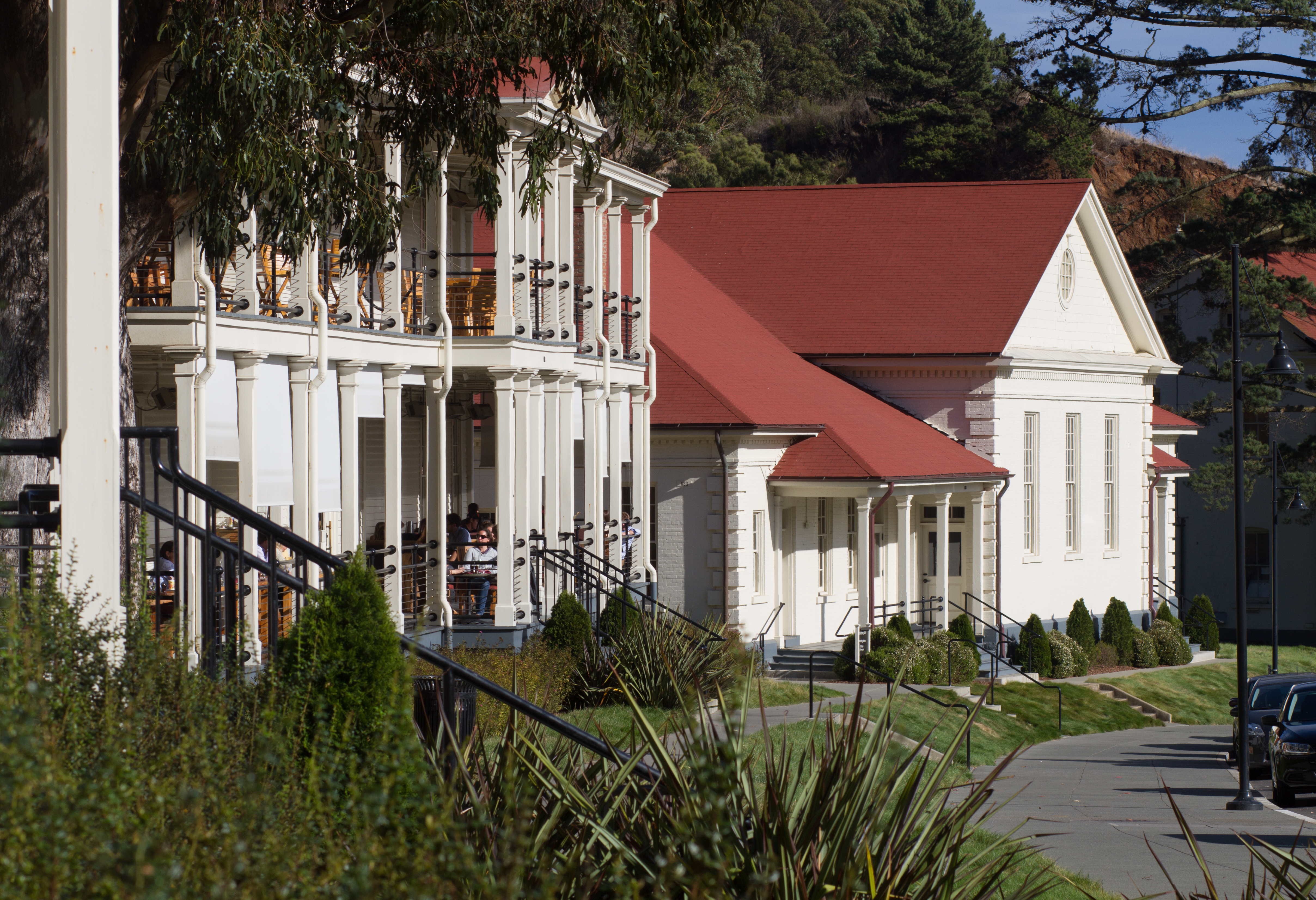 Cavallo Point Lodge, Sausalito, Marin County, California.